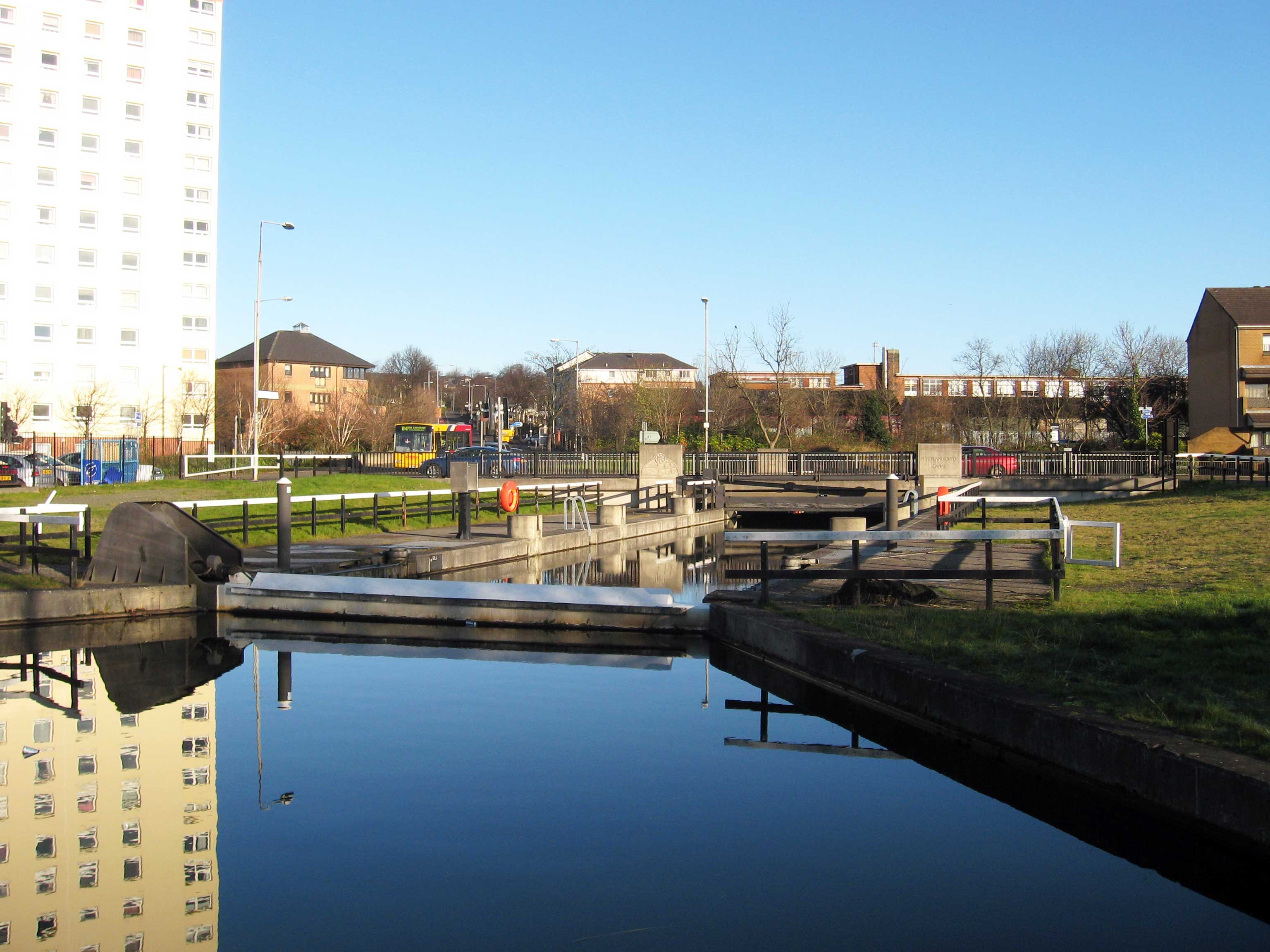 Dalmuir drop lock on the Forth and Clyde Canal, under a bridge carrying the A814, Dumbarton Road.